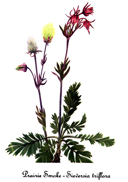 Watercolor painting of Geum_triflorum.